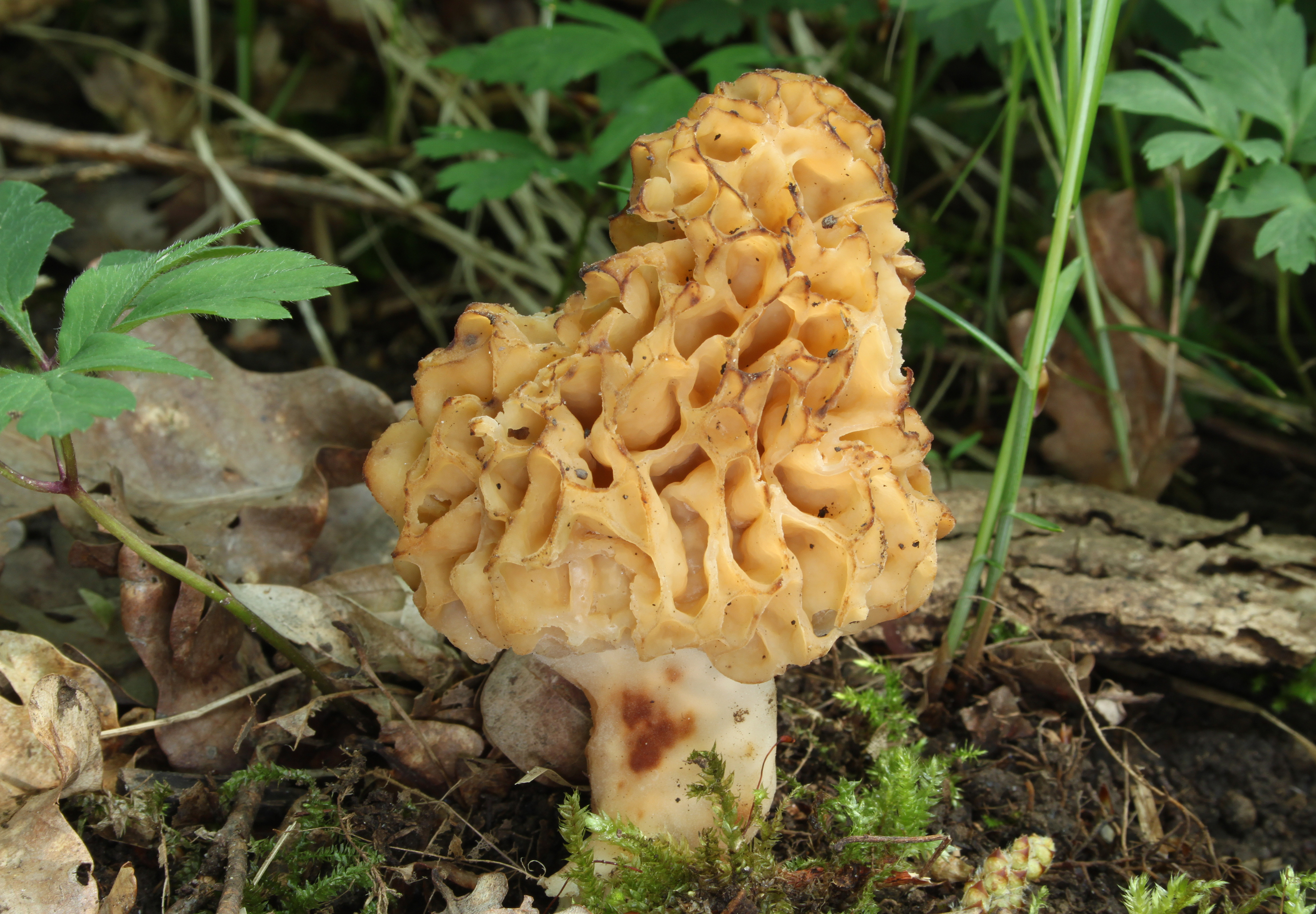 Common Morel, Morel, Yellow Morel, True Morel, Morel Mushroom or Sponge Morel, Morchella esculenta, Family: Morchellaceae, Location: Germany, Erbach, Ersingen